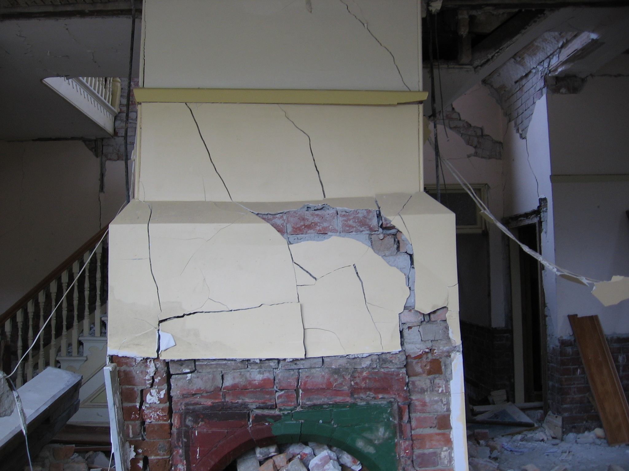 Chimney inside Linwood House damaged by the February 2011 earthquake.